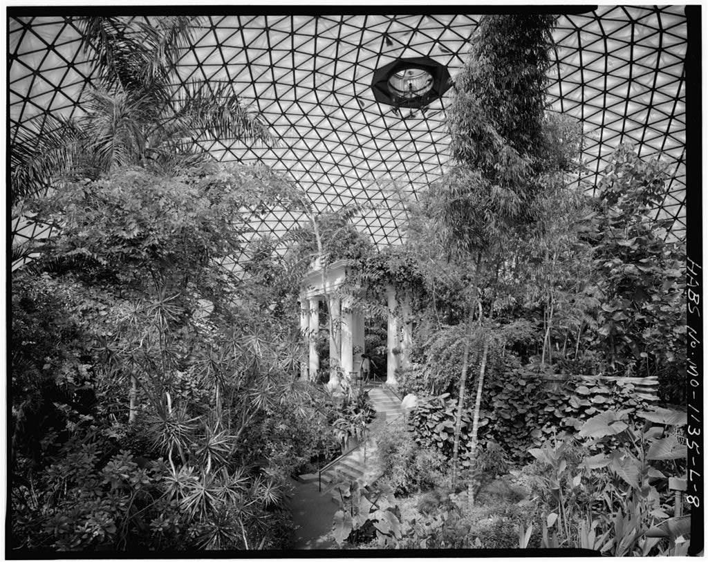 Significance: The dome is the worlds first completey air-conditioned greenhouse and the first geodesic dome to be enclosed in rigid Plexiglass panels. Designed by Thomas C. Howard of Synergetics, Inc, and Frits W. Went, the engineer for climate control.